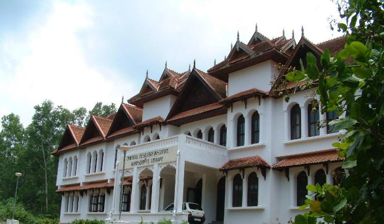 Taken from ssc.